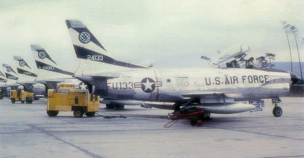 F-86ds of the 514th Fighter-Inteceptor Squadron - 86th FIS - Ramstein AB Germany